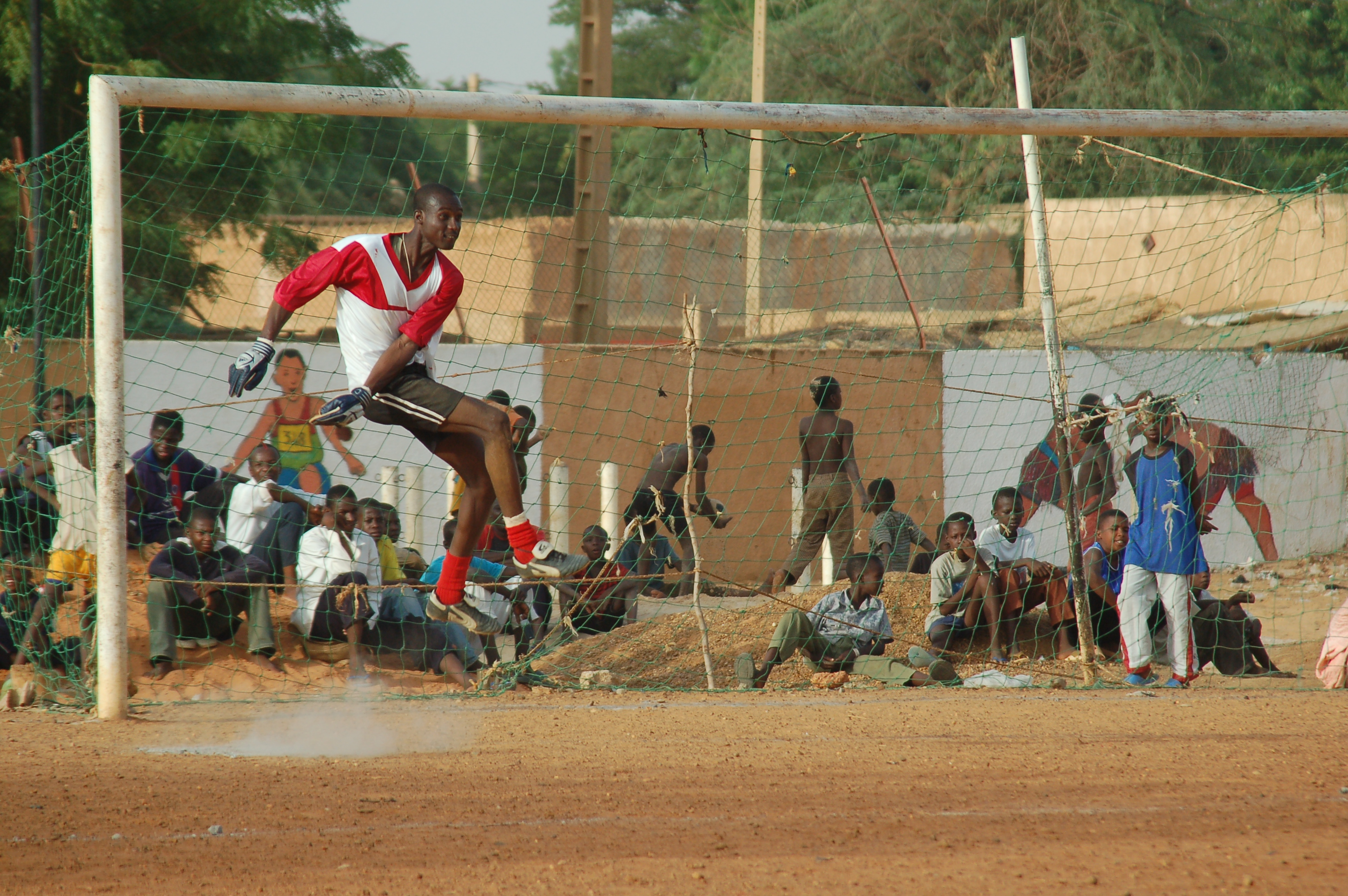 A goalkeeper and young spectators at a soccer game in Niamey, Niger.